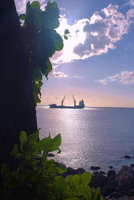 Moroni Harbor Bay, Grande Comore